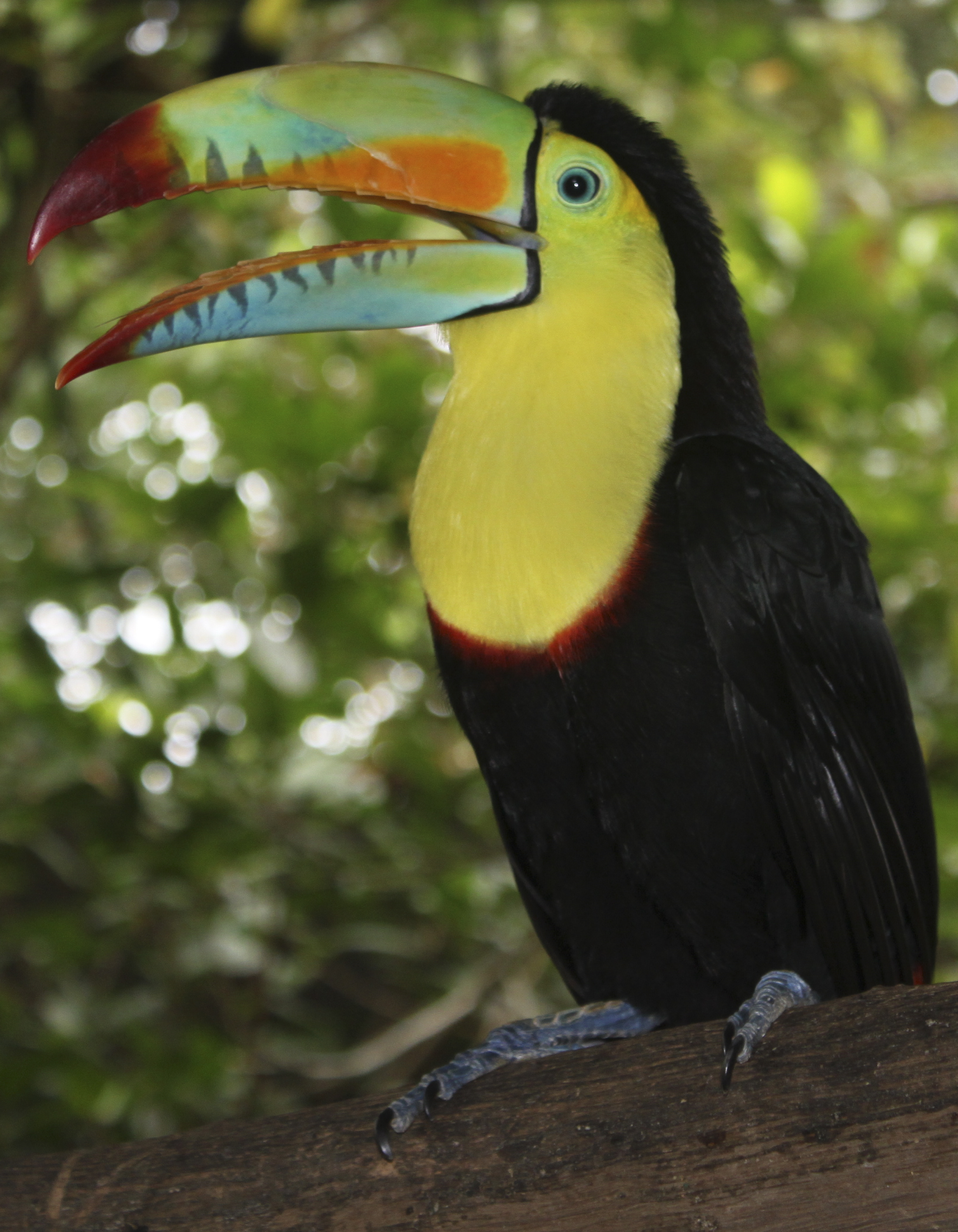 Keel-billed toucan at Parque Municipal Summit, Panama